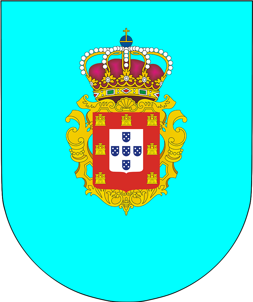 Provisional coat of arms of the city of São Paulo (mid XVIII century - 1917) - book : "Símbolos Paulistas: estudo histórico-heráldico" by Hilton Federici : Secretaria da Cultura, Ciência e Tecnologia, Conselho Estadual de Artes e Ciências Humanas, 1980, São Paulo. Also, sample displayed at Ipiranga museum, São Paulo city. Emerson